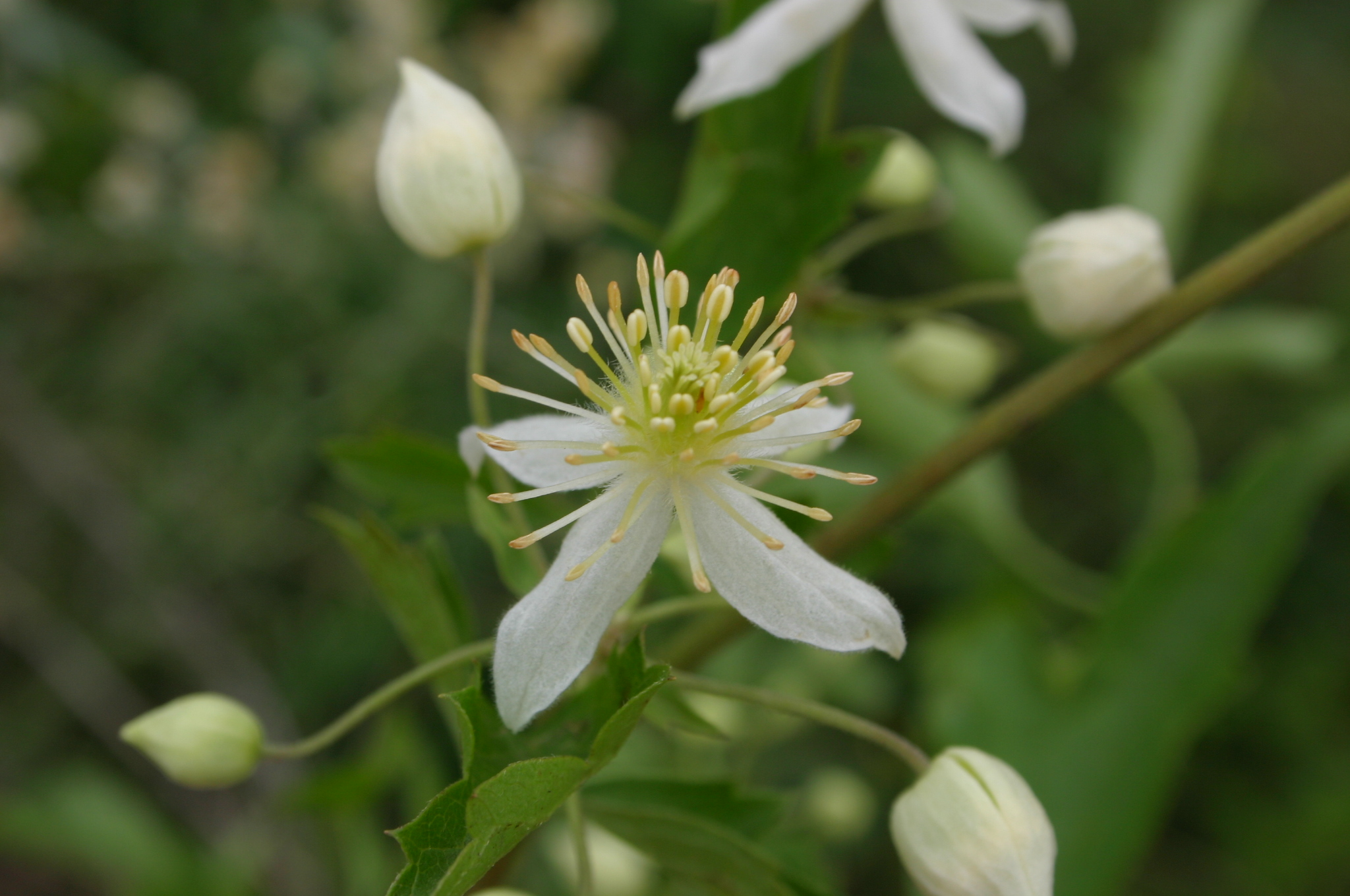 Flower and flowerbuds of Clematis brachiata Thunb. growing in Johannesburg, South Africa